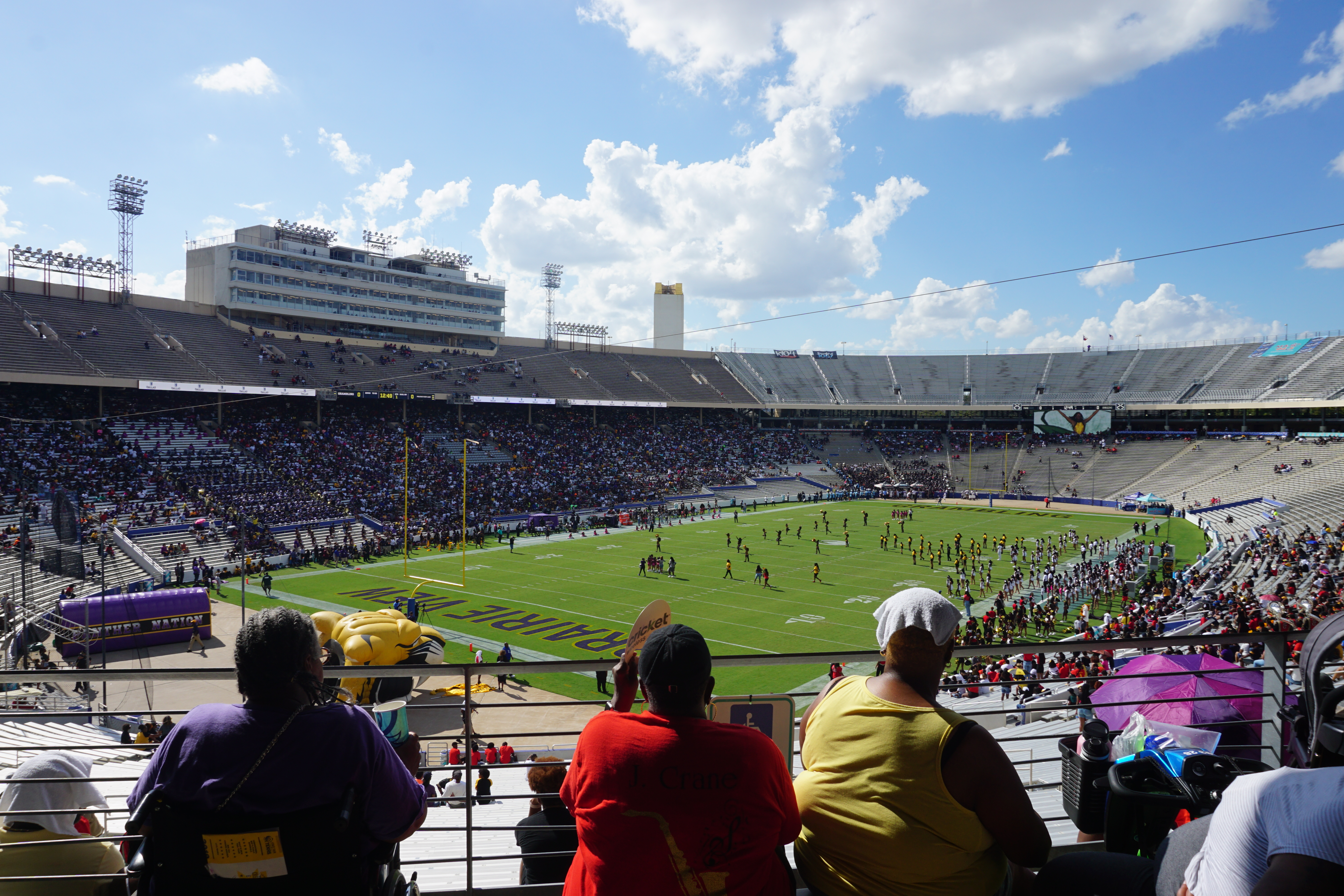 The stadium before the 2019 State Fair Classic (Grambling State Tigers vs. Prairie View A&M Panthers) at the Cotton Bowl in Dallas, Texas (United States). Prairie View won 42–36.